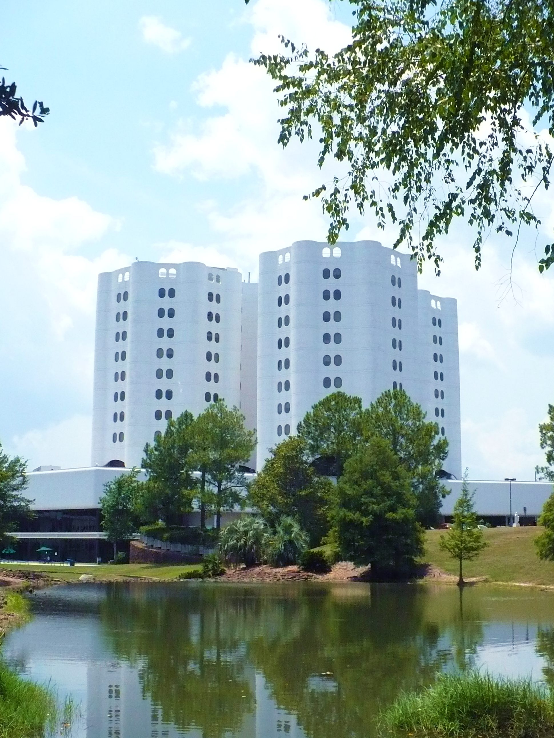 Providence Hospital at 6801 Airport Boulevard in Mobile, Alabama. Designed by Bertrand Goldberg and built 1982-1988. The design features an eight-story bed tower with 350 beds atop a three-story base.